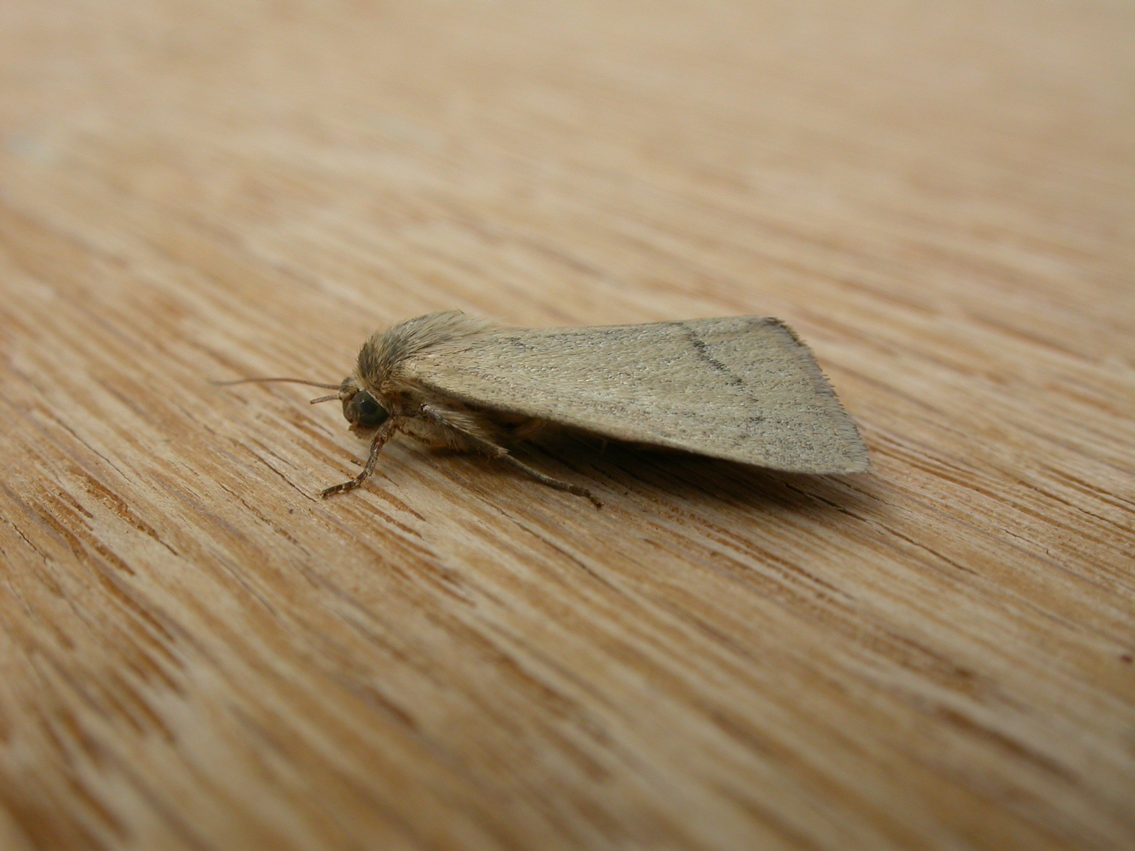 Heliocheilus sp., probably either H. moribunda (Guenée, 1852) or H. aberrans (Butler, 1886), to MV light, Aranda ACT, 17/18 December 2010